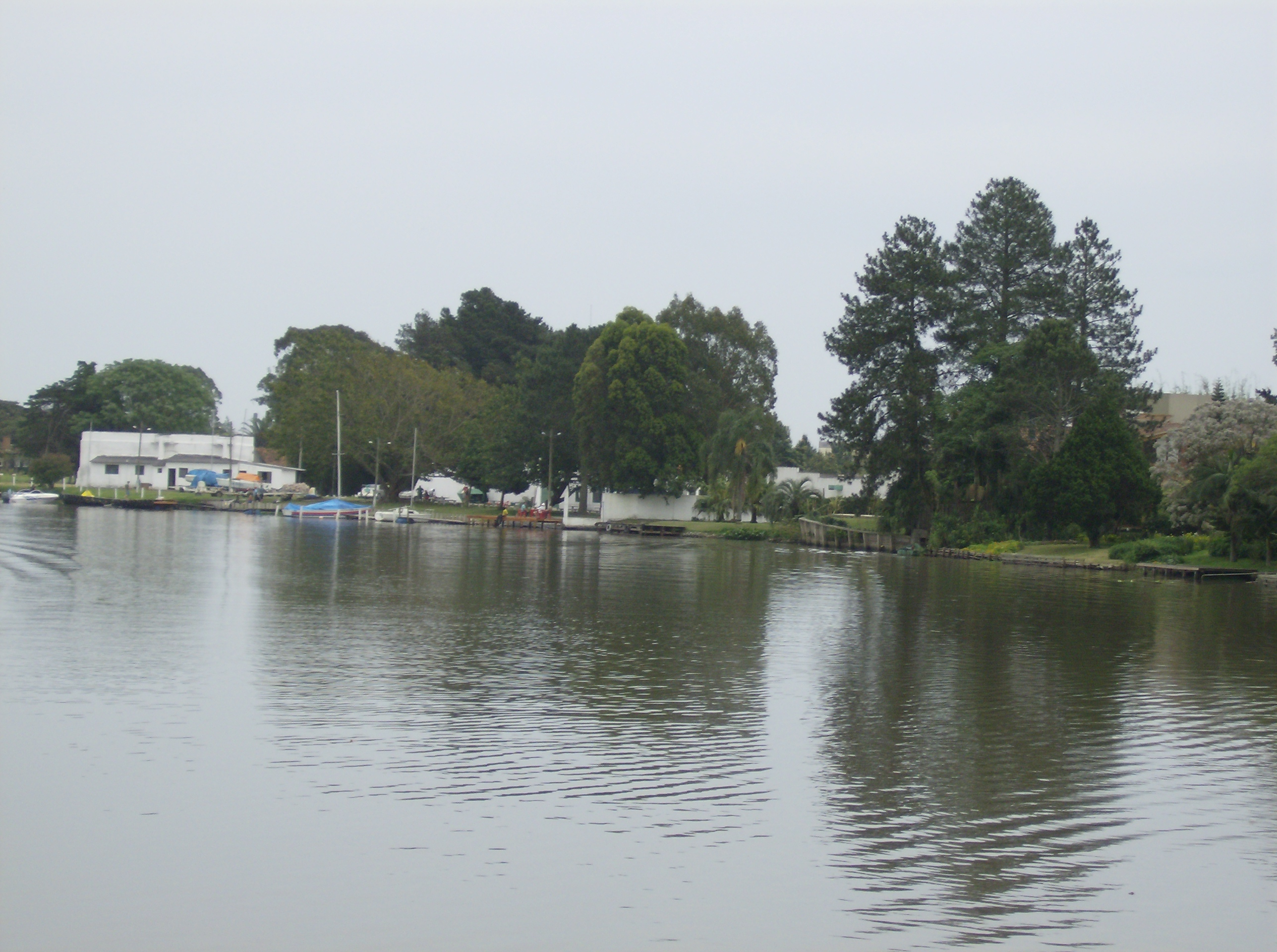 Arroio Pelotas (a creek in the city of Pelotas/ Brazil)